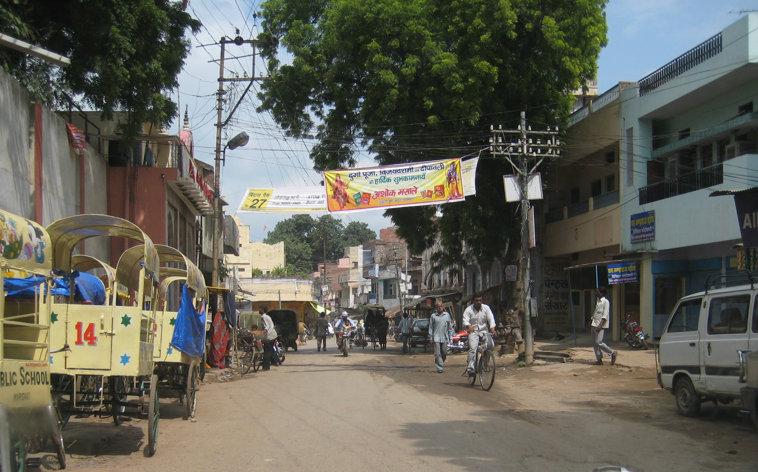 Mirzapur